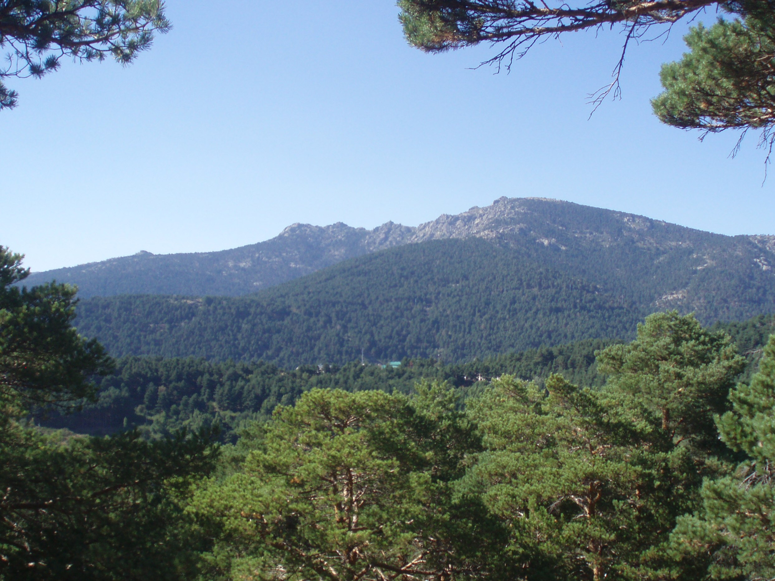 Siete Picos (Seven Peaks), a mountain in Sierra de Guadarrama (Guadarrama mountain range), in the central Spain.